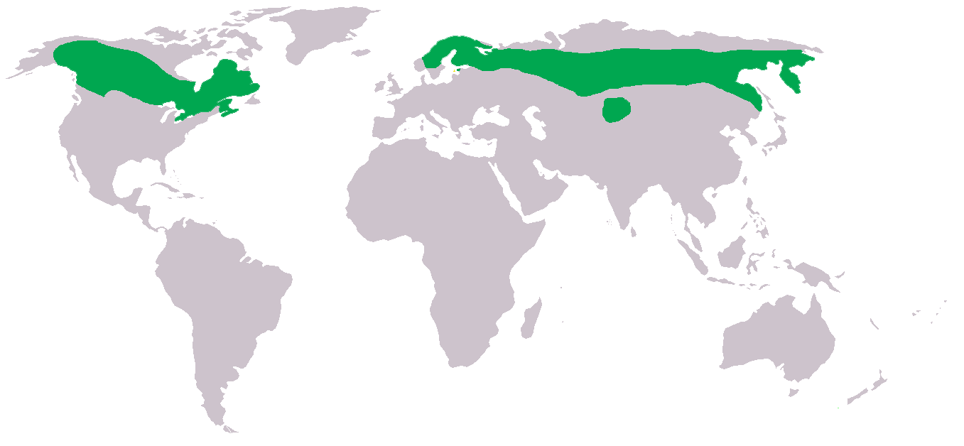 Distribution of Surnia ulula